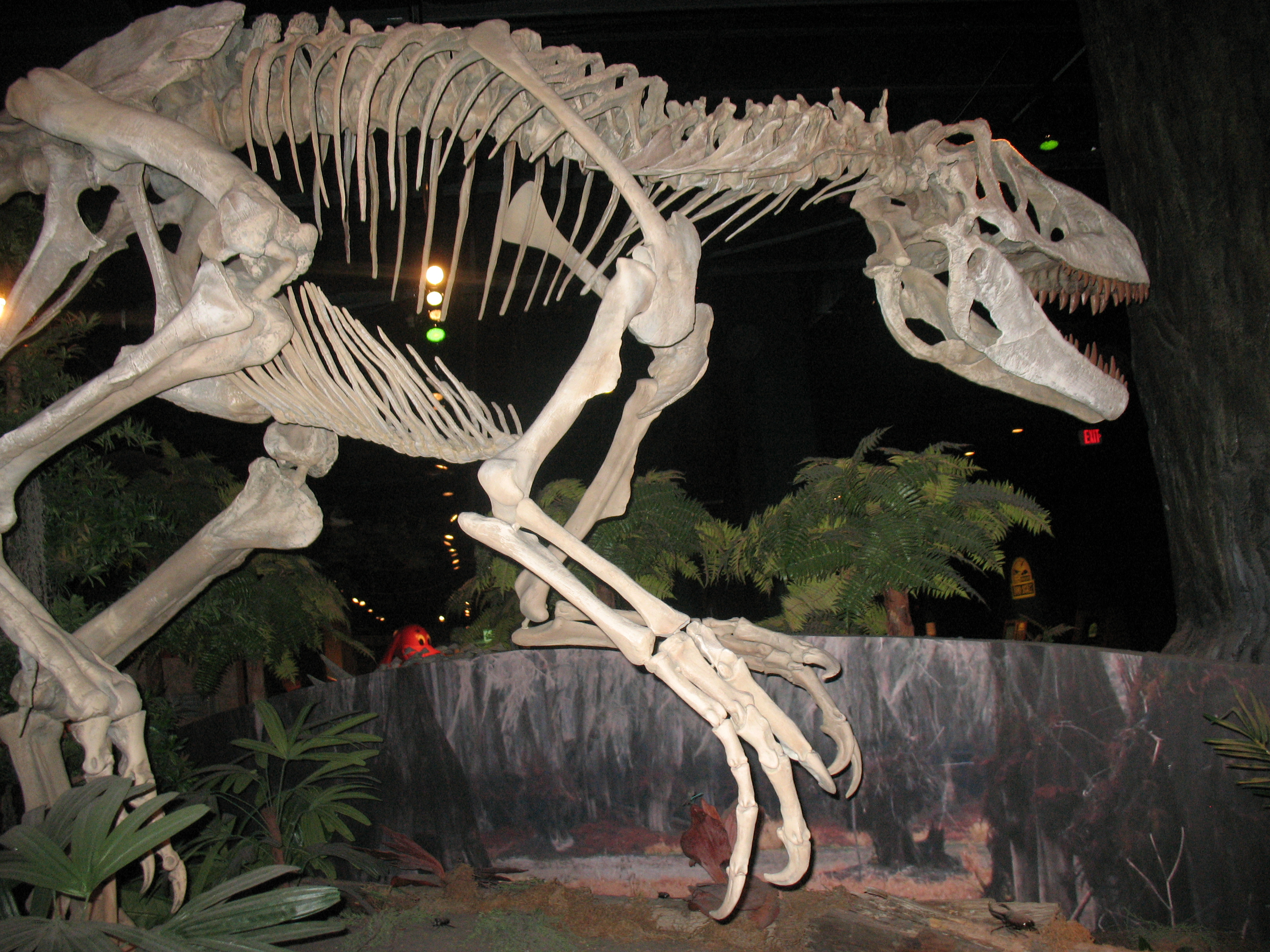 Pronounced: APA-lay-CHEE-o-SAW-rus Meaning: “Appalachian Lizard” Common name: Alabama tyrannosaur Age: Late Cretaceous Period Size: 22 feet long Diet: Carnivore A relative of T.rex, Appalachiosaurus was the dominant predator in Alabama during the Late Cretaceous Period. The bones on display in this exhibit come from the most complete Appalachiosaurus ever discovered and represent the most complete tyrannosaur ever found in the eastern half of the United States. Unlike T.rex, the arms of Appalachiosaurus were large, perhaps representing the largest arms of any tyrannosaur ever discovered in North America. This skeleton represents the first mounted Appalachiosaurus on exhibit in the world.